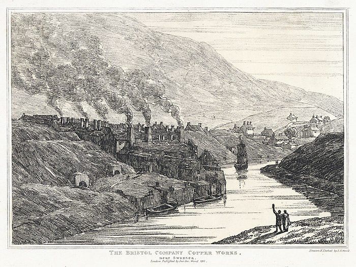 A view of the copper works at Swansea with smokestacks in the centre and a river with boats in it in the foreground.